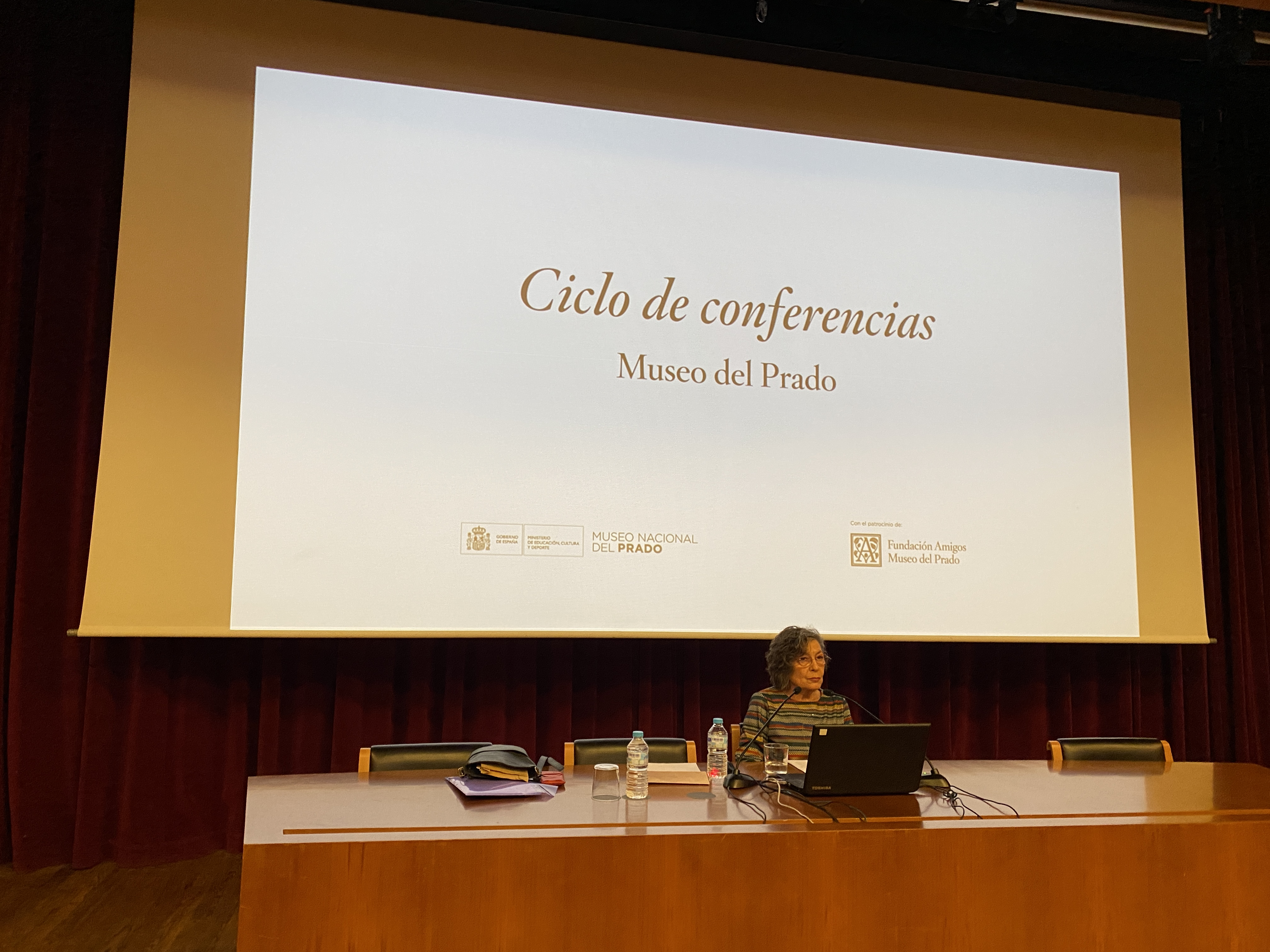 at the conference in the Museo del Prado in Madrid about the artist Sofonisba Anguissola